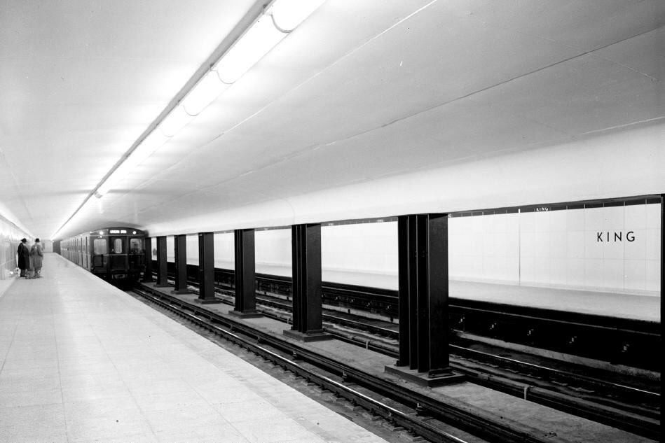 King subway station - fresh and newly opened